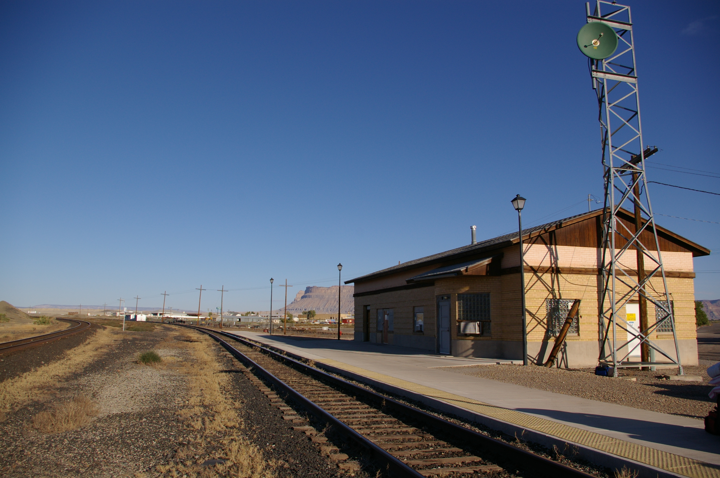 The Amtrak depot at Green River